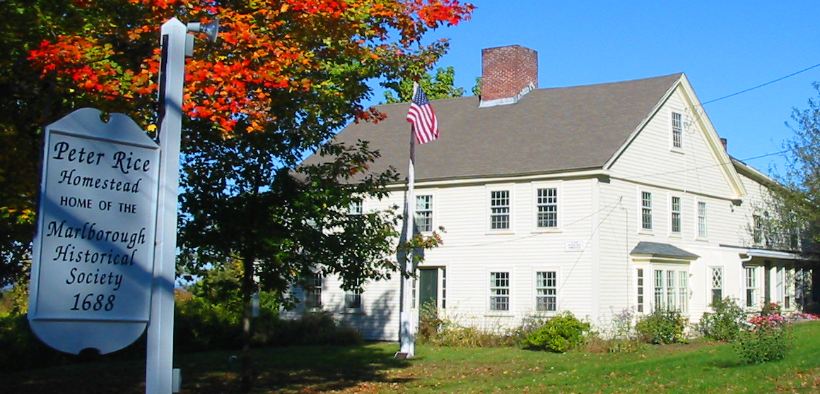 The historic Peter Rice Homestead in Marlborough, Massachusetts, in the fall. The Peter Rice Homestead dates to 1688 and is the home of the Marlborough Historical Society. More information about the Homestead and the Society is at